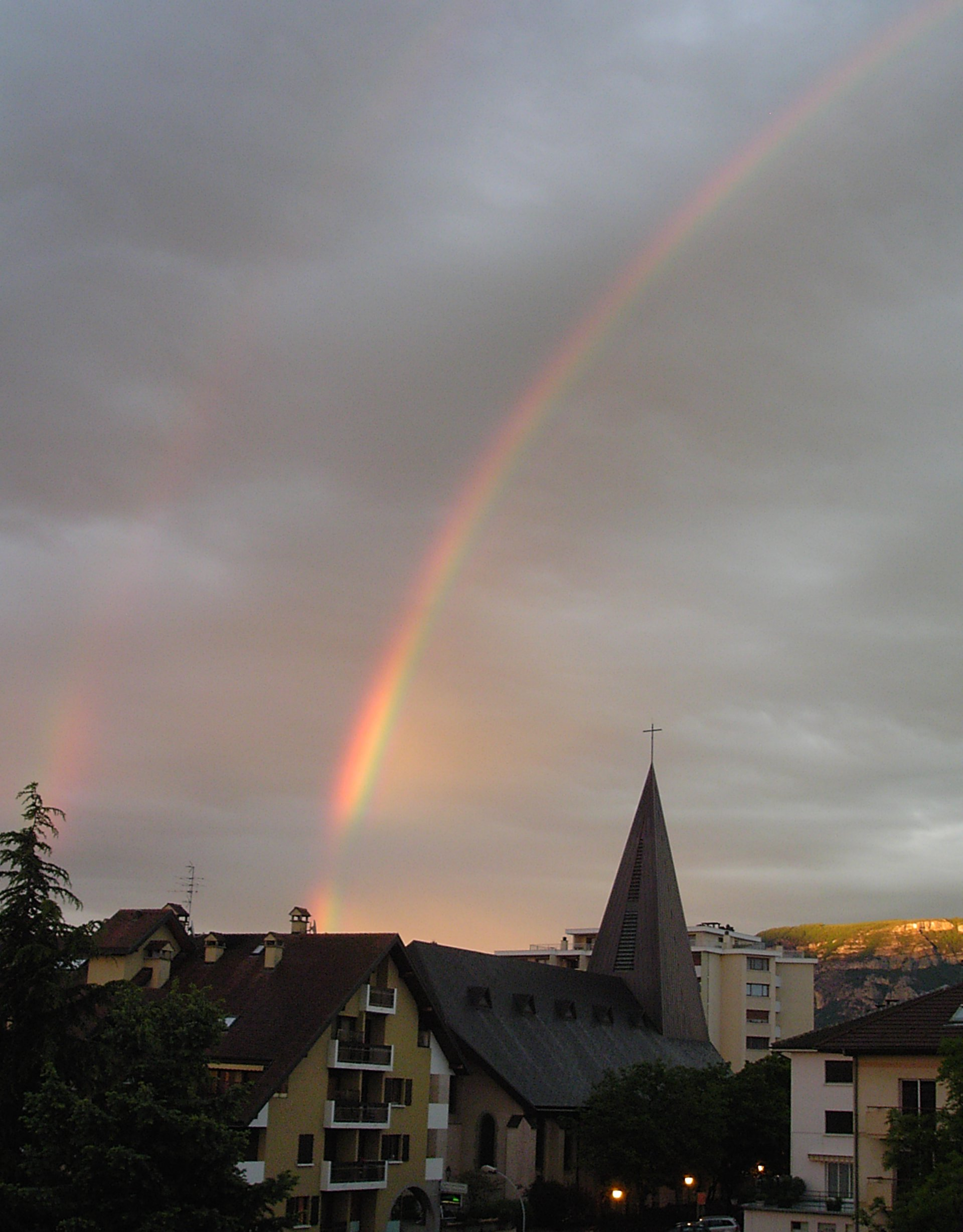 A double rainbow on the church of Saint-Julien en Genevois (France).